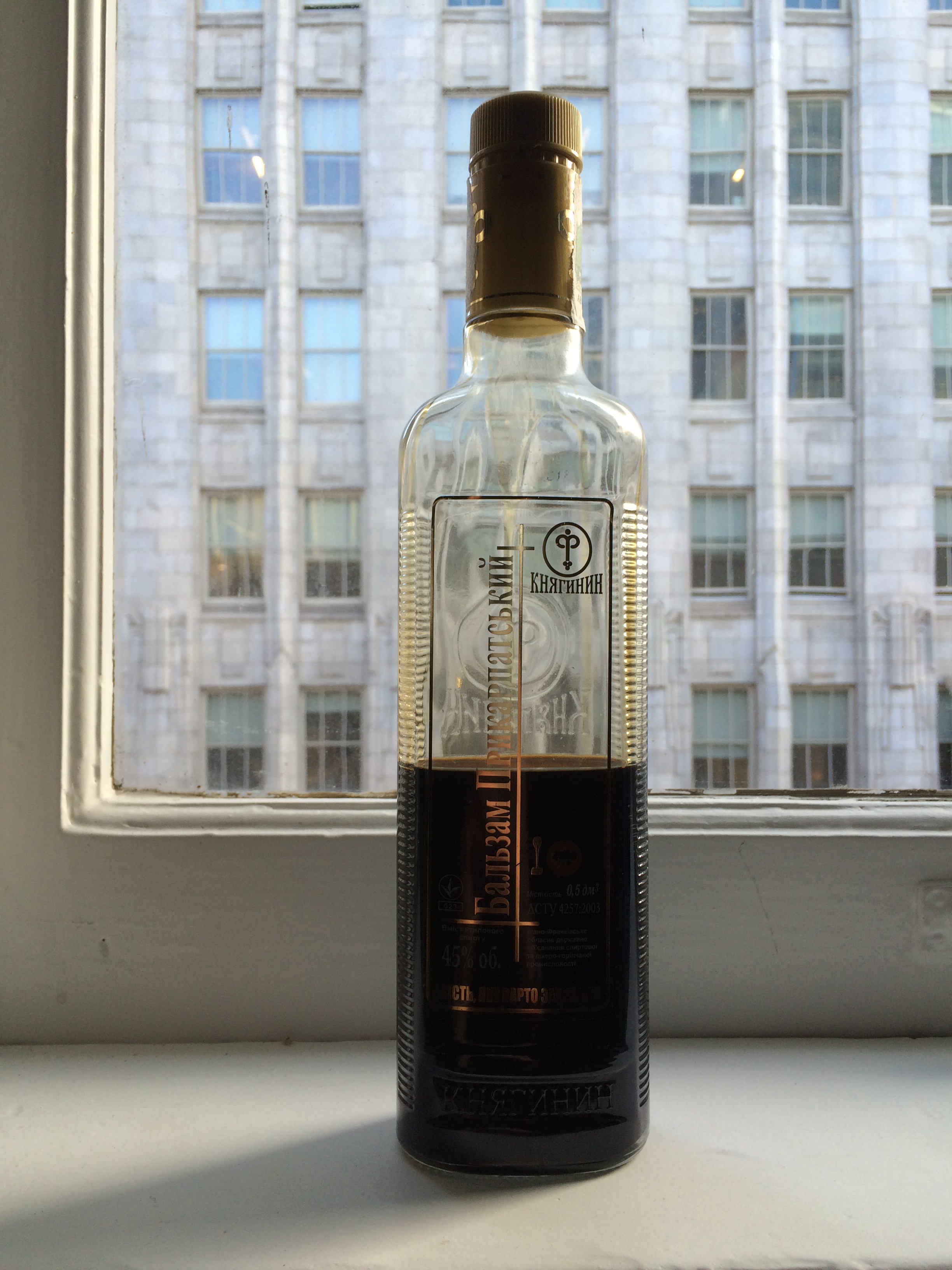 Ukrainian Balsam Liqueur from the Ivano-Frankivsk Oblast region in western Ukraine.